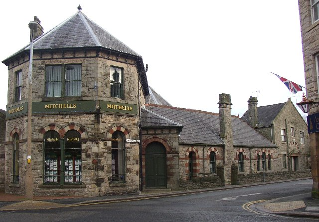 Auction House, Cockermouth. At the junction of Station Street and Lorton Street; it is a large building extending from Lorton Street to South Street. The corner part is now occupied by an estate agent.